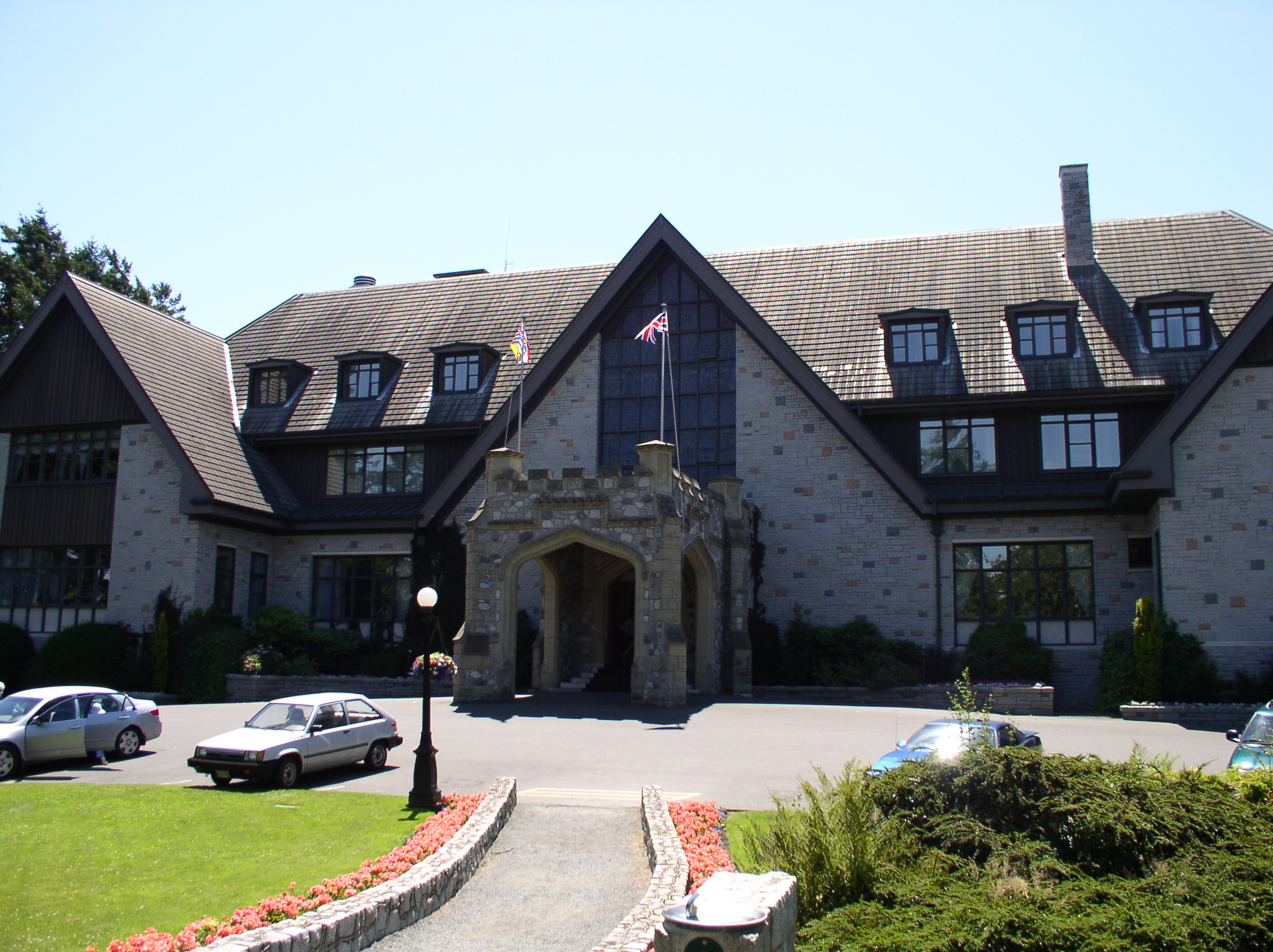 BC's Government House